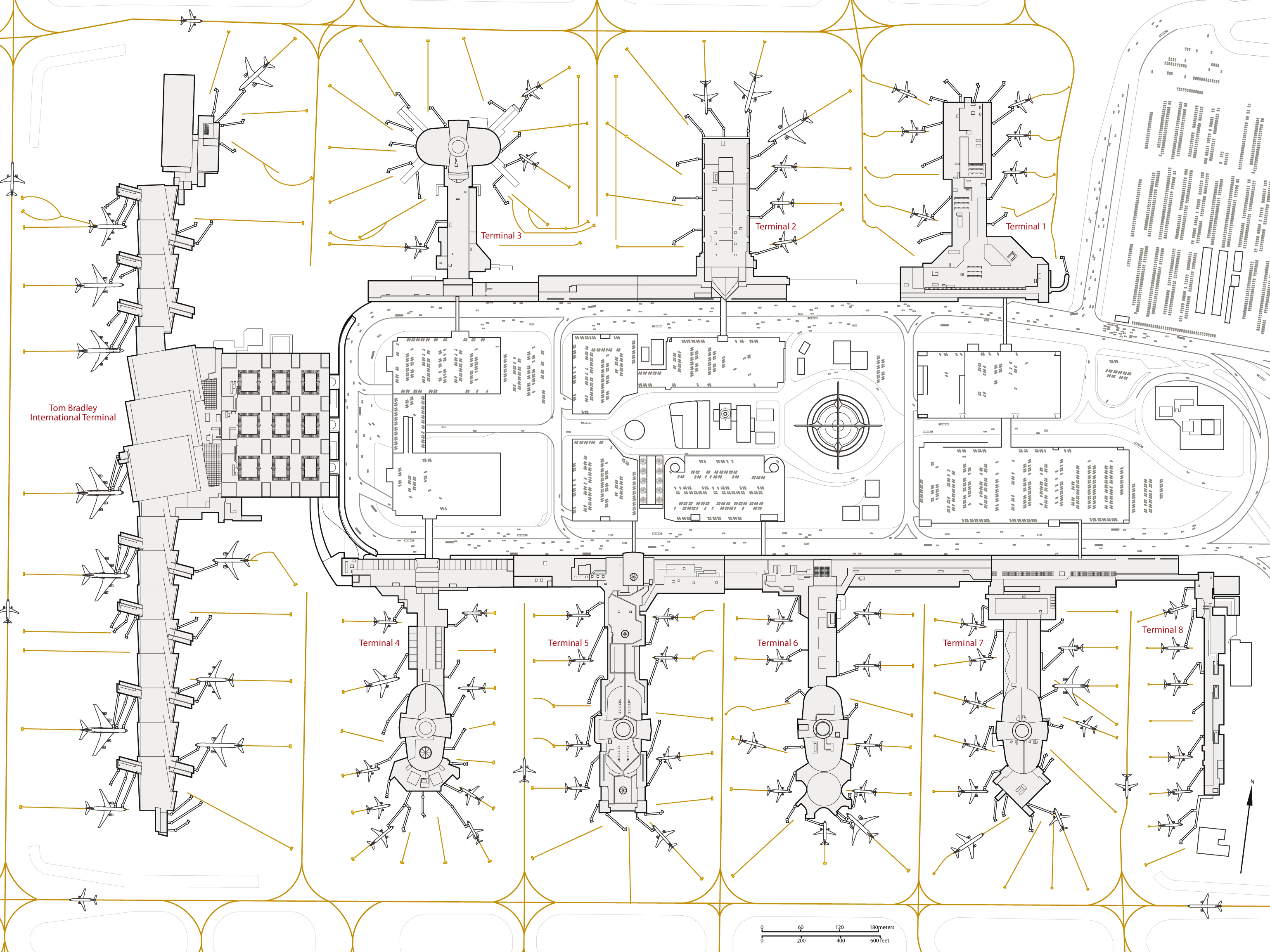 Los Angeles airport diagram of terminals